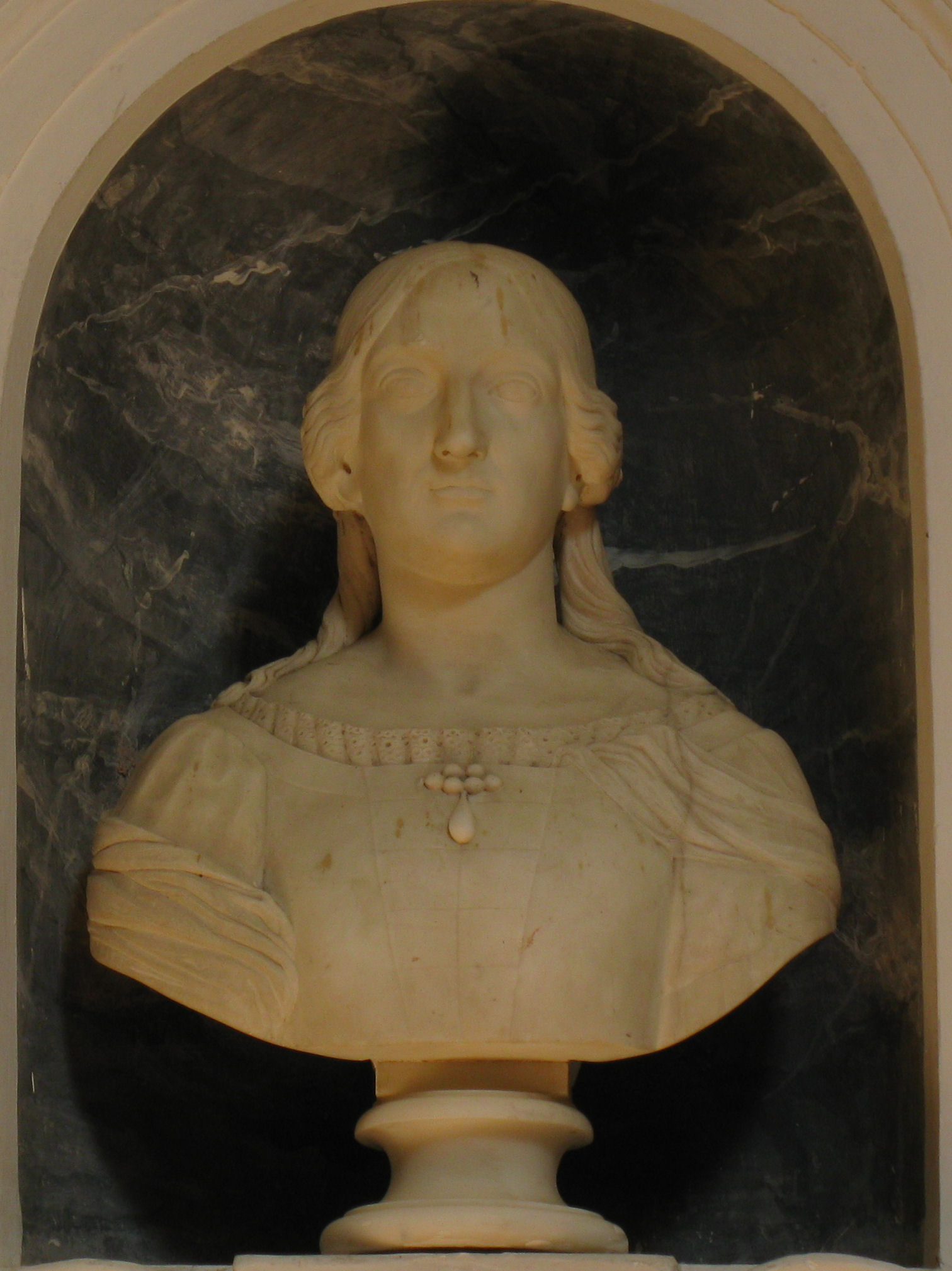 Monument of Livia Cesarini (1646 - 1711) by Anonimous sculptor (XIX century) in the Chiesa dei Cappuccini at Genzano di Roma, Italy.